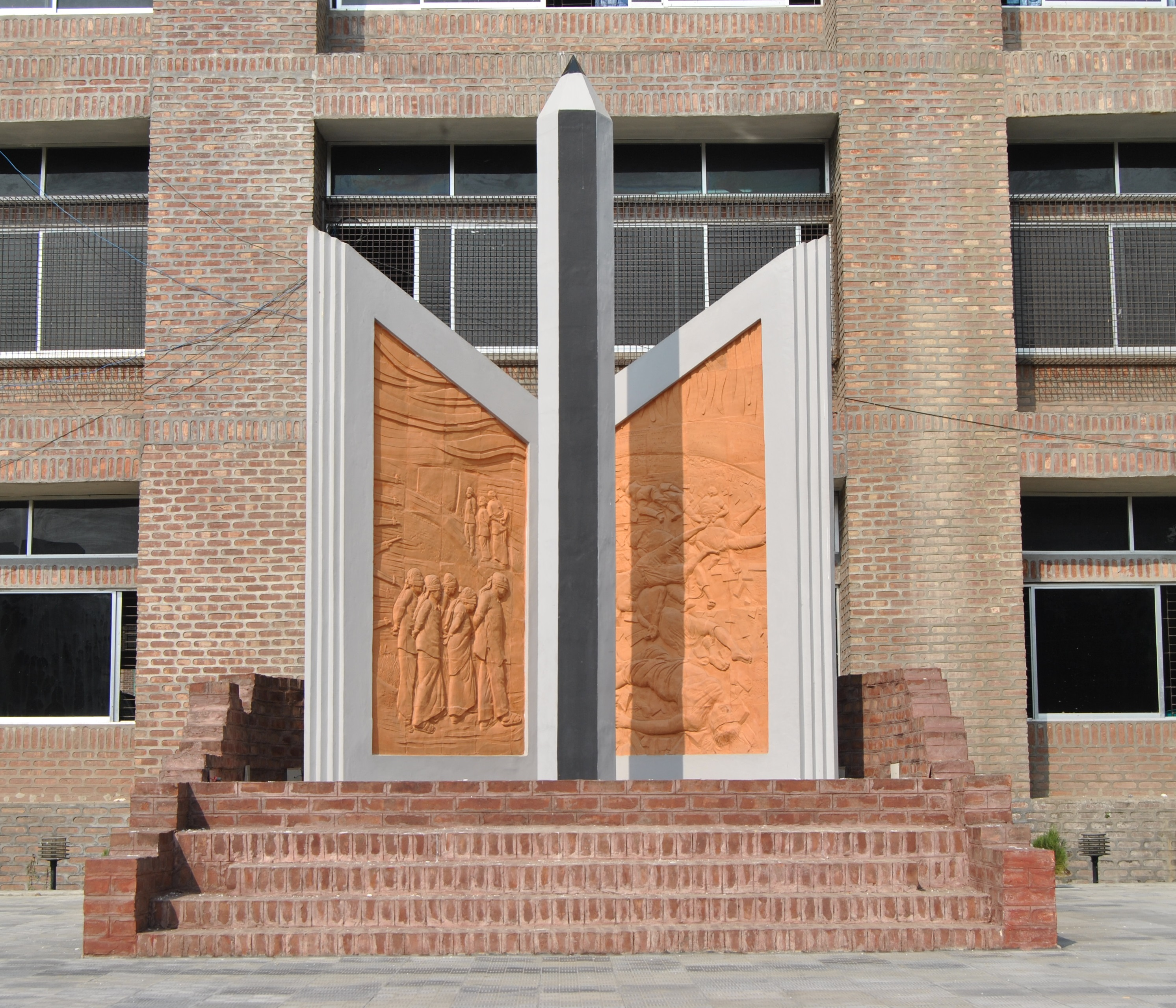 Intellectuals Memorial,Mawlana Bhashani Science and Technology University